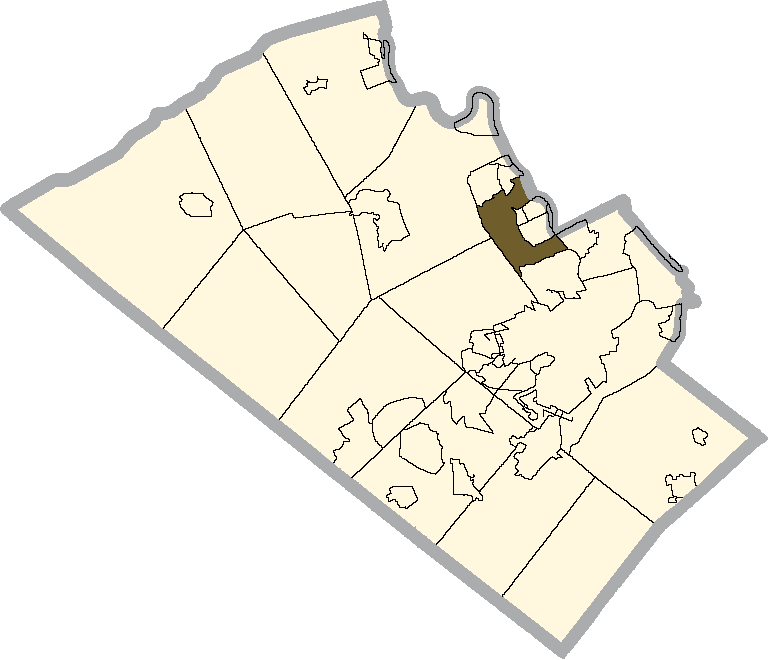 Whitehall Township shaded on the Lehigh county map.